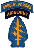 Shoulder sleeve patch of the United States Army Special Forces.